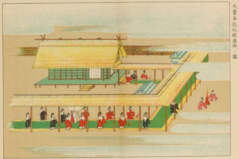 Depiction of Daijosai Yukiden Shingyo